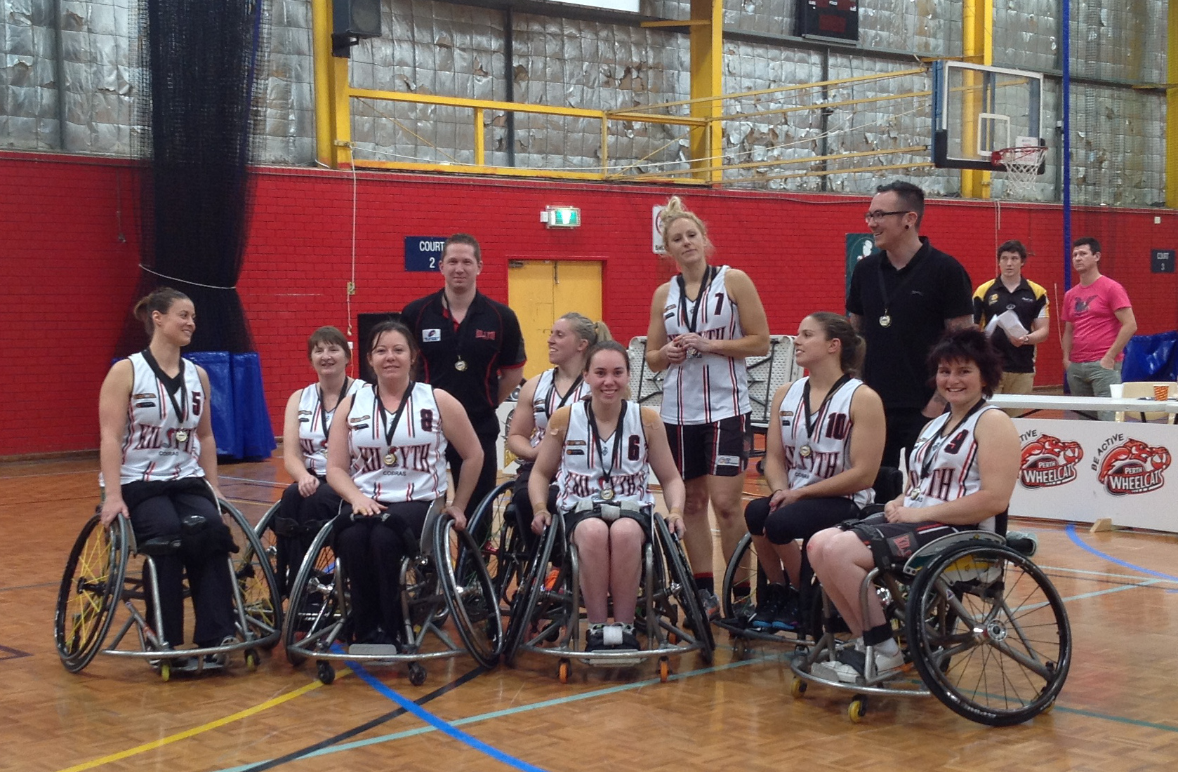 Kilsyth Cobras. 2015 WNWBL champions. Left to right: Leanne Del Toso (Captain), Lynne Panayiotis, Tina McKenzie, Ben Hodgens (Head Coach), Shelley Chaplin, Mel Adams, Alice Hammond, Clare Nott, Phil Turner (Team Manager), Katherine Reed